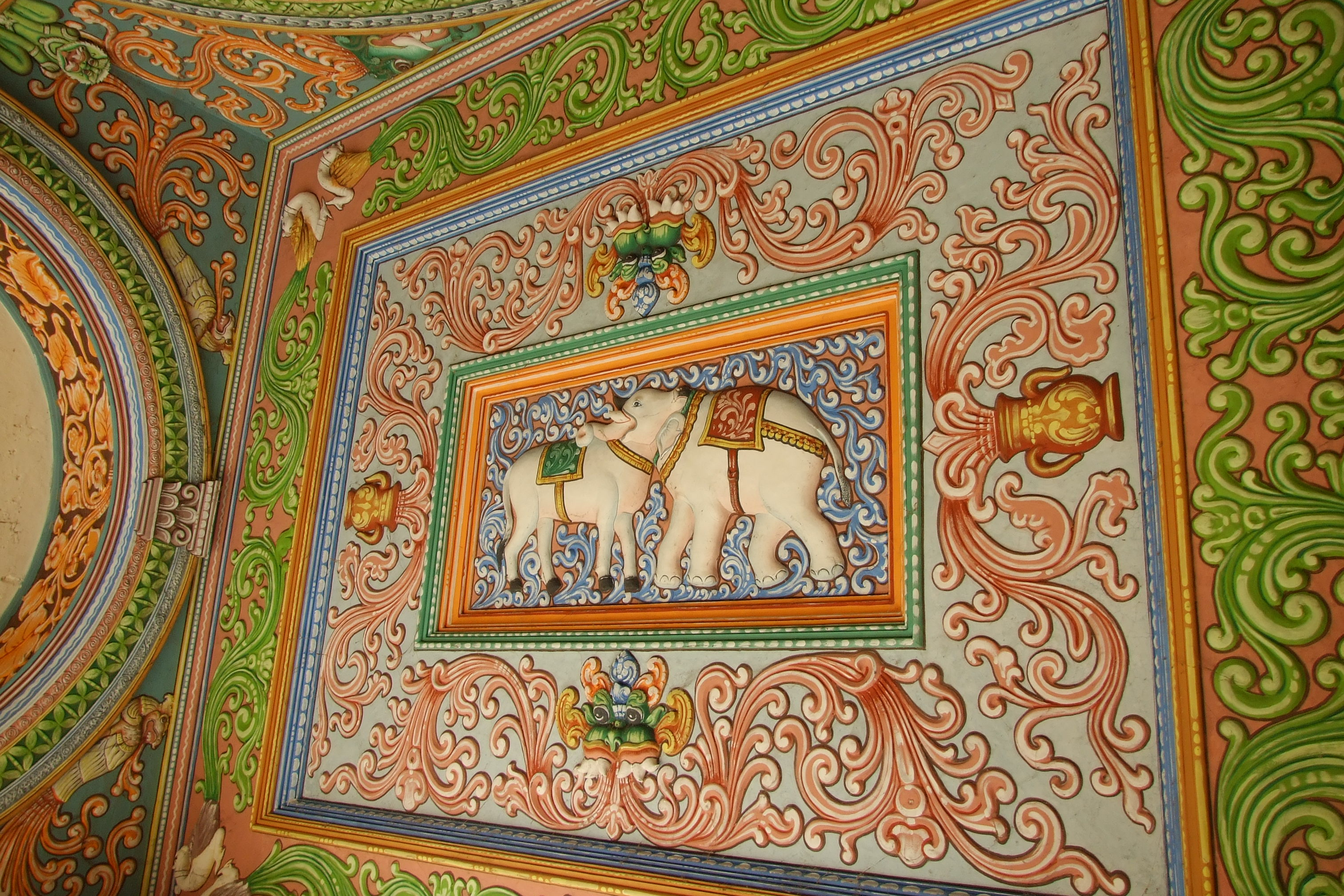 Sarasvati Mahal Library, Tanjore, Tamil Nadu, India.